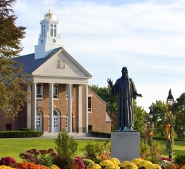 Church of Merrimack College